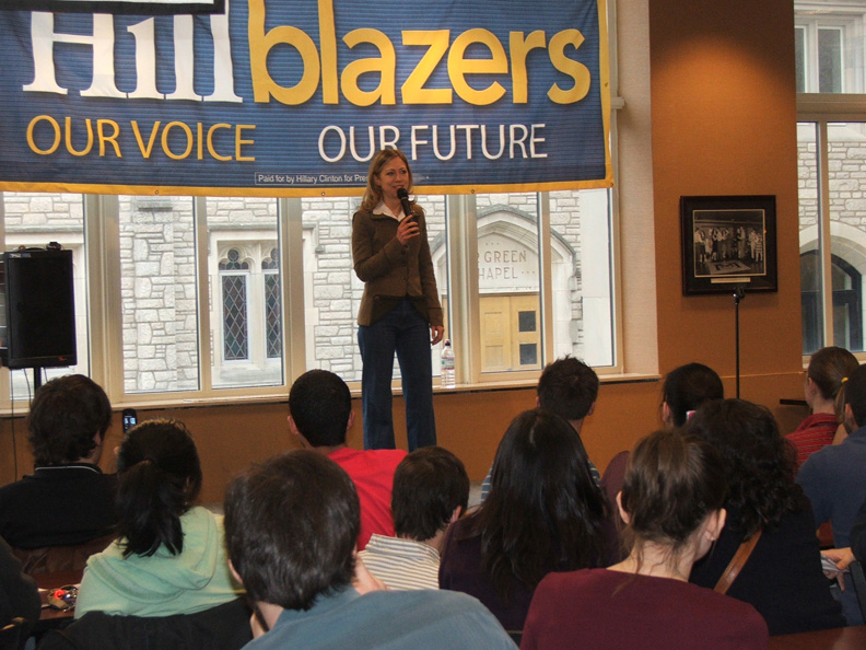 Chelsea Clinton speaking to a group of students at the University of Missouri